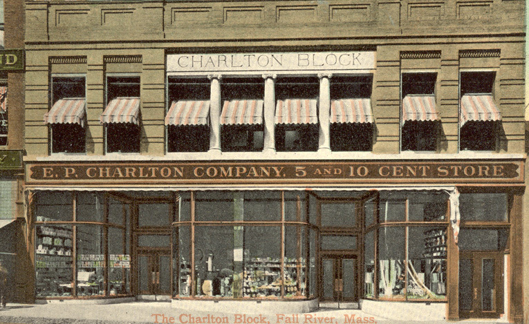 Post card depicting the E. P. Charlton & Company's new headquarters in Fall River, Massachusetts.